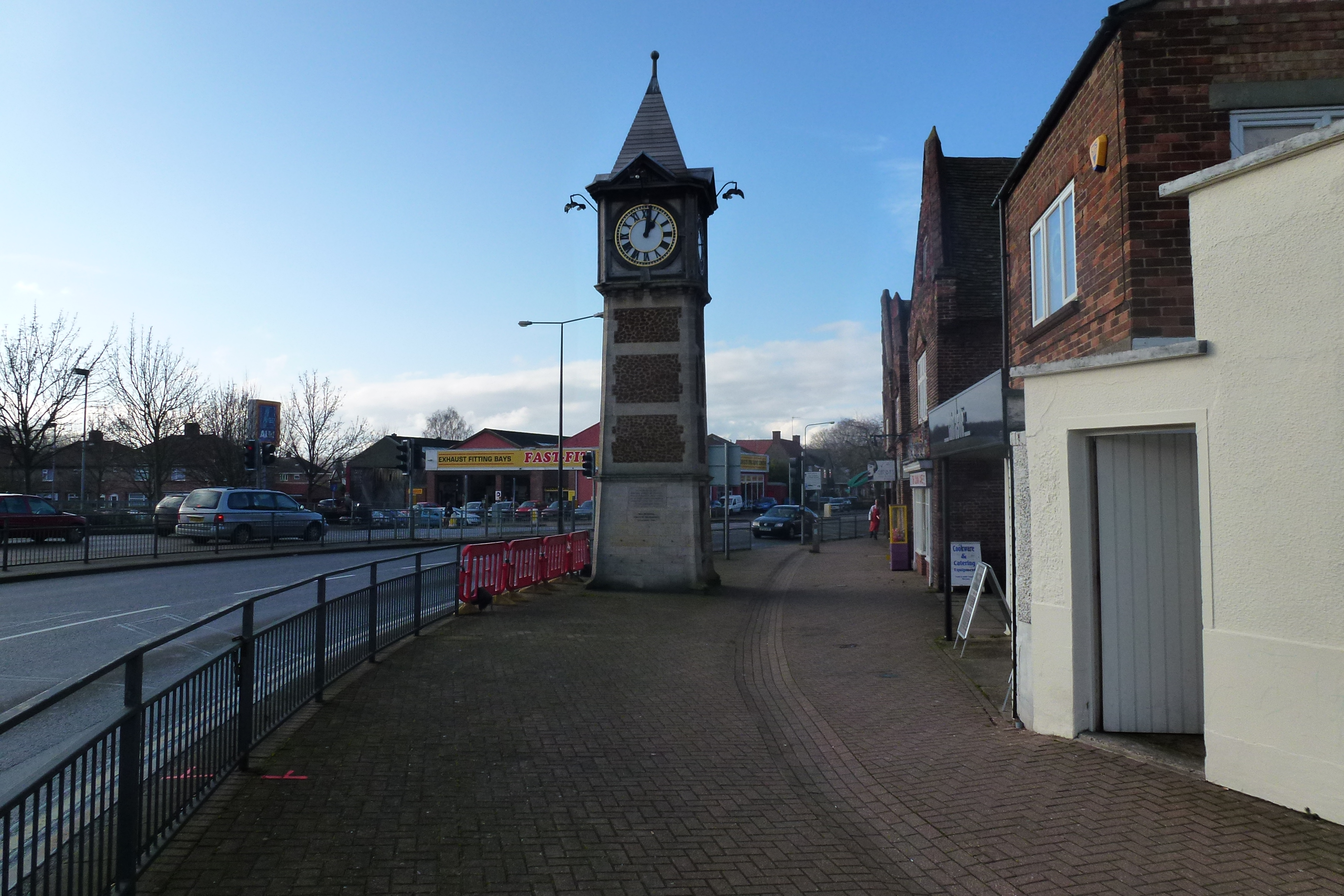 Gaywood clock erected 1920 by the inhabitants of Gaywood in memory of the fallen.